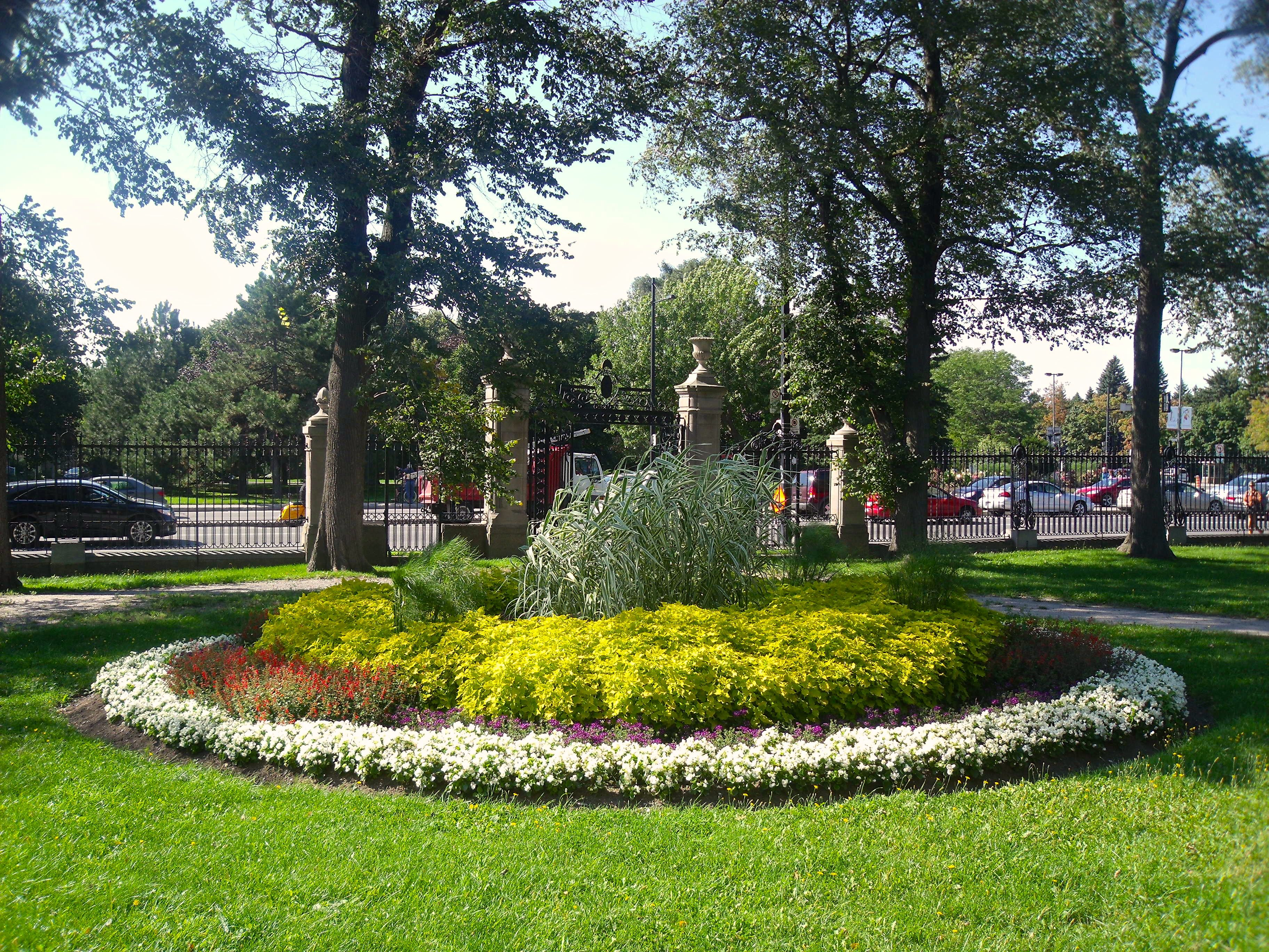 Château Dufresne, 4040 Sherbrooke Street East, Montreal, Quebec, Canada.